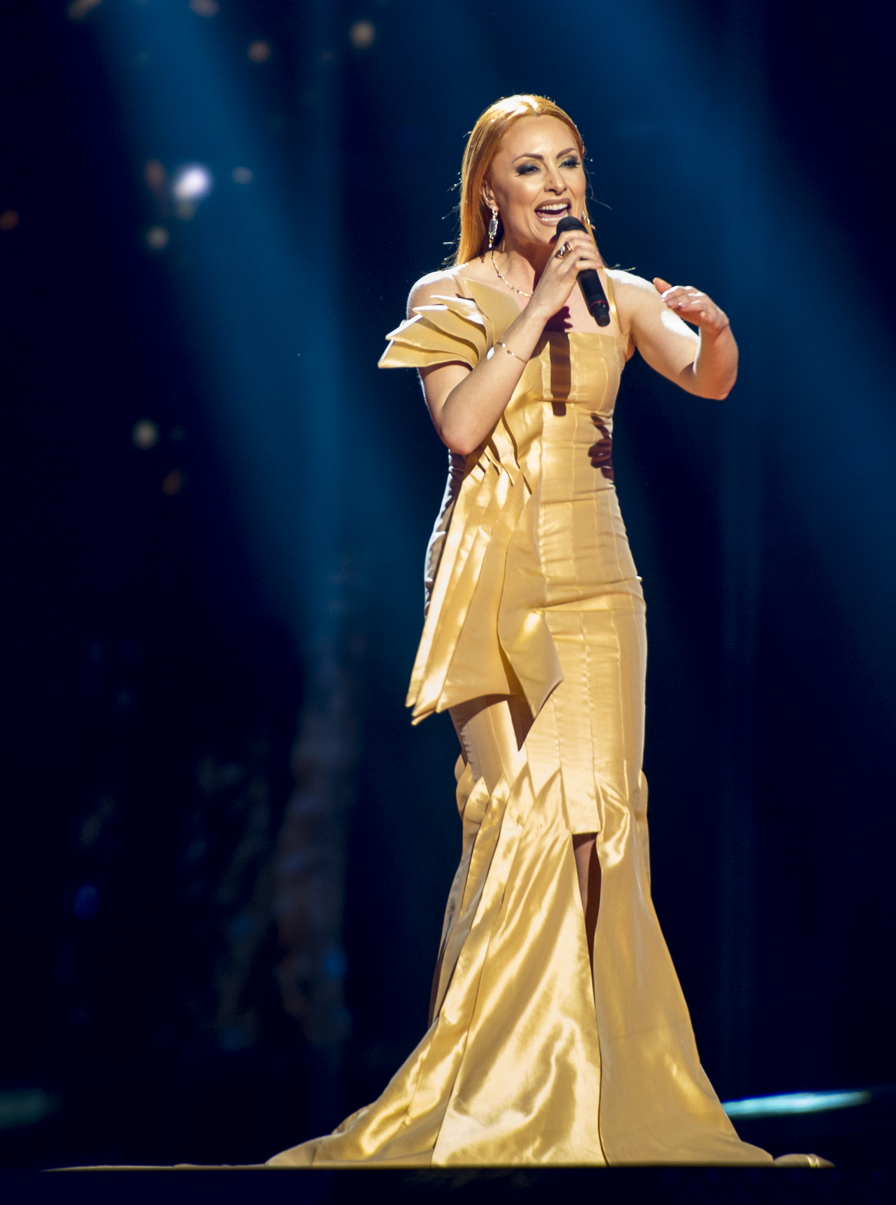 Eneda Tarifa representing Albania with the song "Fairytale" during a rehearsal before the second semi final of the Eurovision Song Contest 2016 in Stockholm. (Help translate this text)